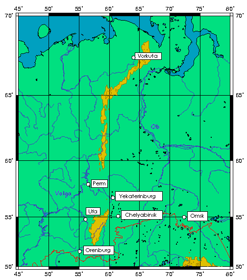 Map of Ural Mountains. See also ru version: Image:Ural_Mountains_Map_ru.gif